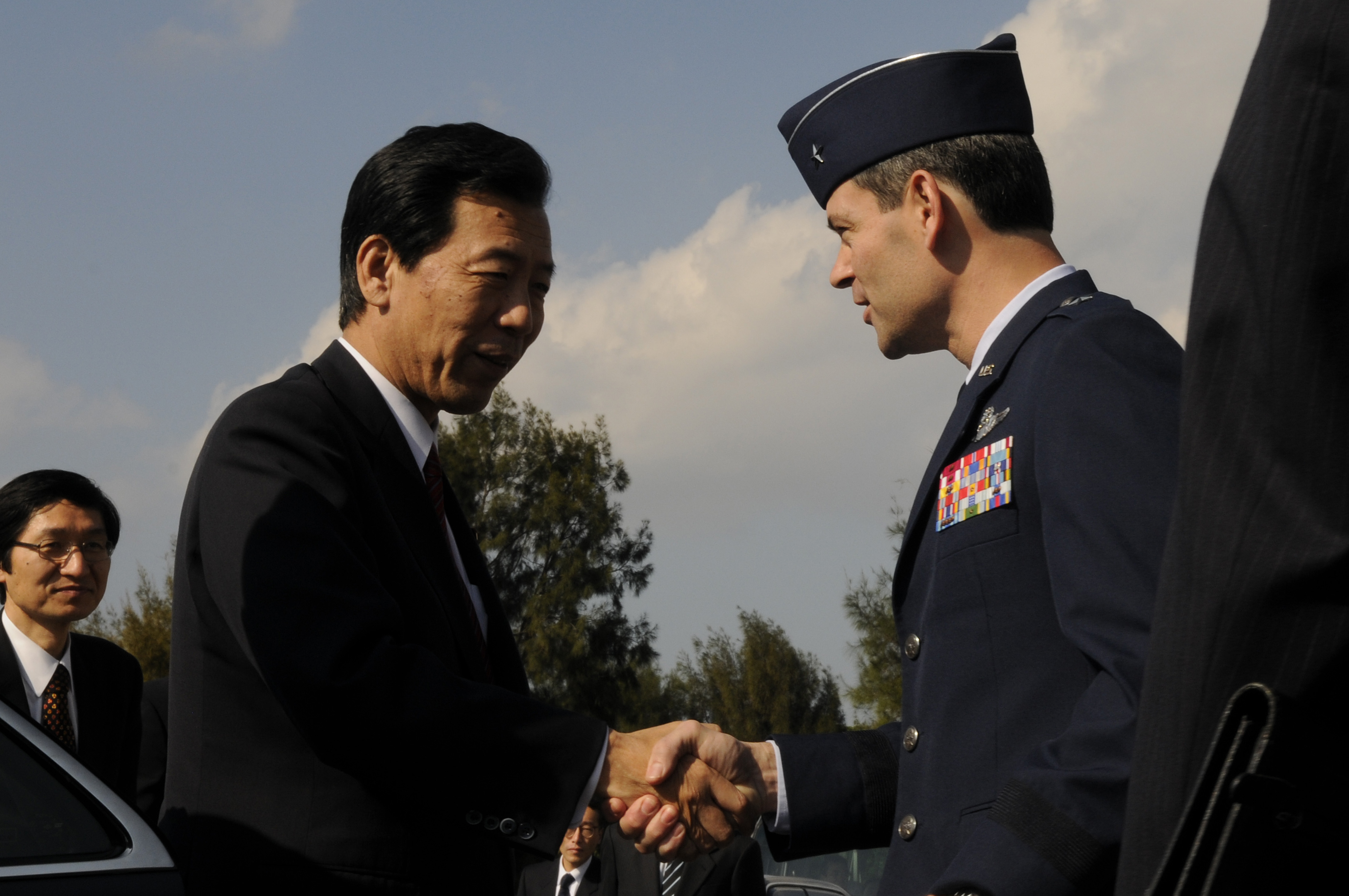 KADENA, Japan (Jan. 11, 2010) - Japan Chief Cabinet Secretary Hirofumi Hirano greets Brig. Gen. Ken Wilsbach, 18th Wing commander at Kadena Air Base, Okinawa, Jan. 9. Secretary Hirano received an 18th Wing mission briefing and base tour during his visit. (U.S. Air Force photo/Staff Sgt. Chrissy Best)